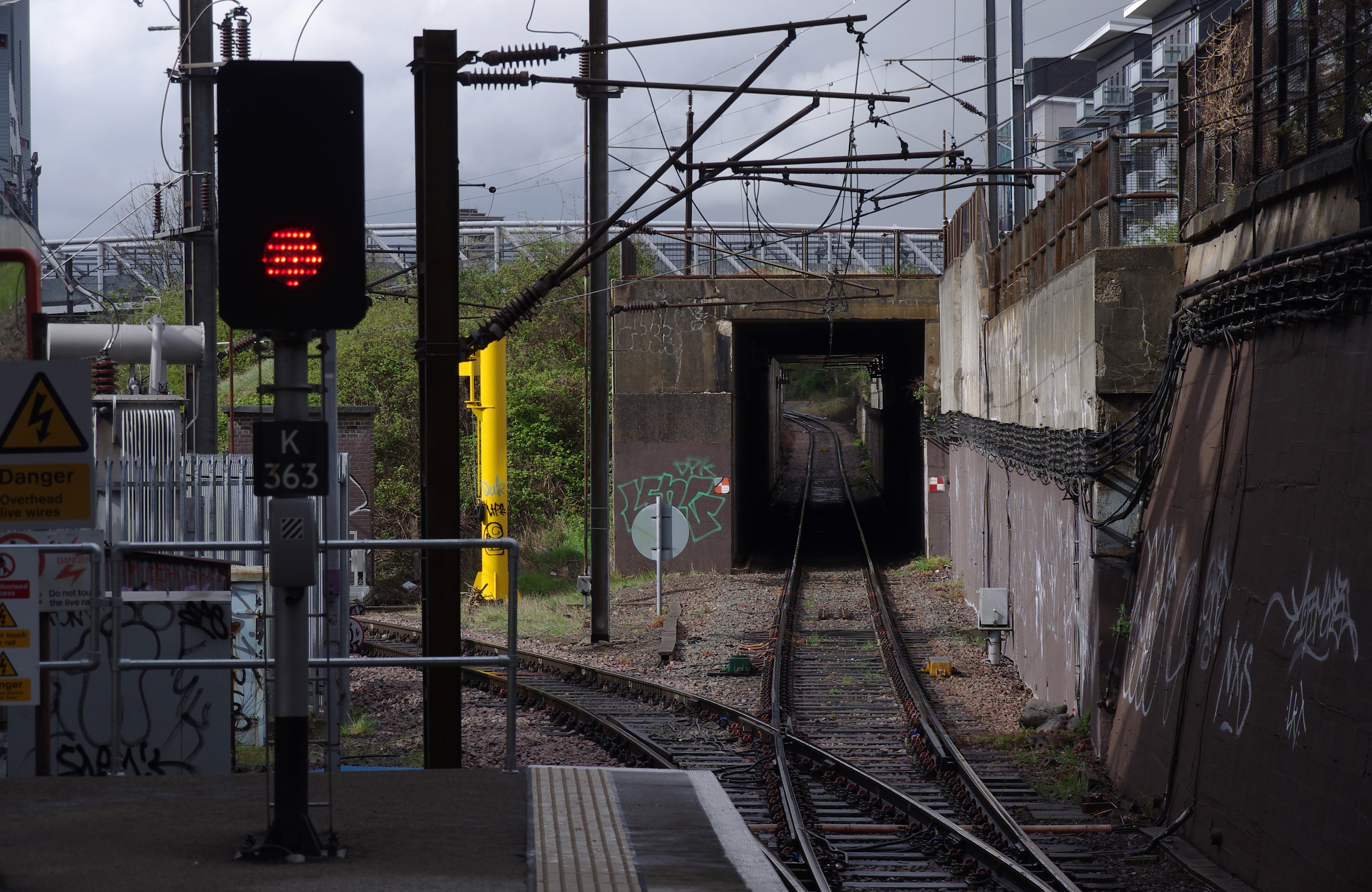 Looking north along the line at Drayton Park railway station.